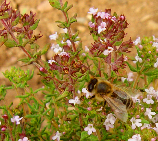 Picture of a bee on a thyme